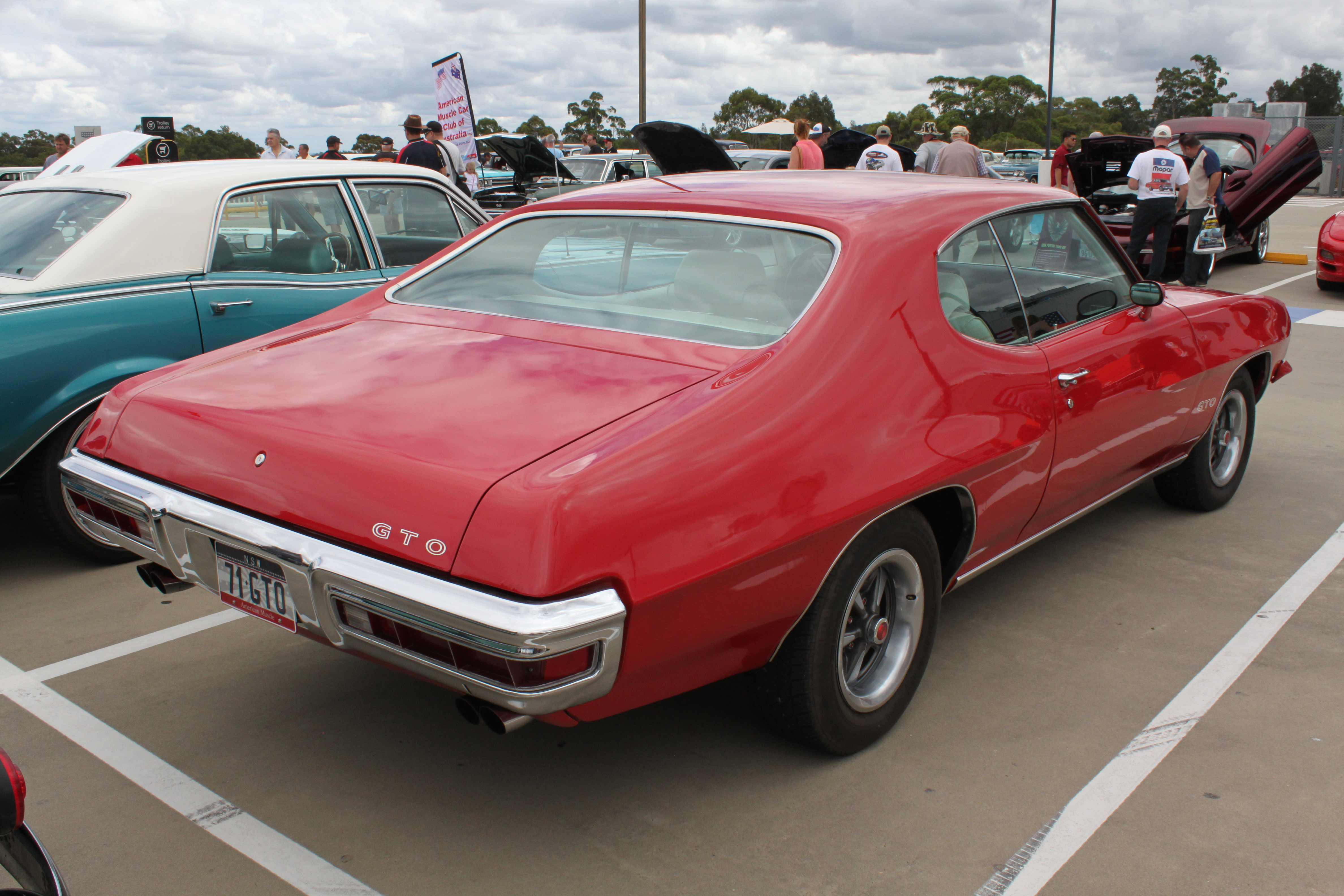 All American Car Show, Castle Hill, NSW January 2016